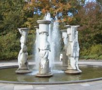 Column well in the health resort park Nümbrecht. - Säulenbrunnen im Kurpark der Gemeinde Nümbrecht. Author mrfinch Time of creation 2004 Licence GNU FDL and CC-by-SA Camera Canon S 45